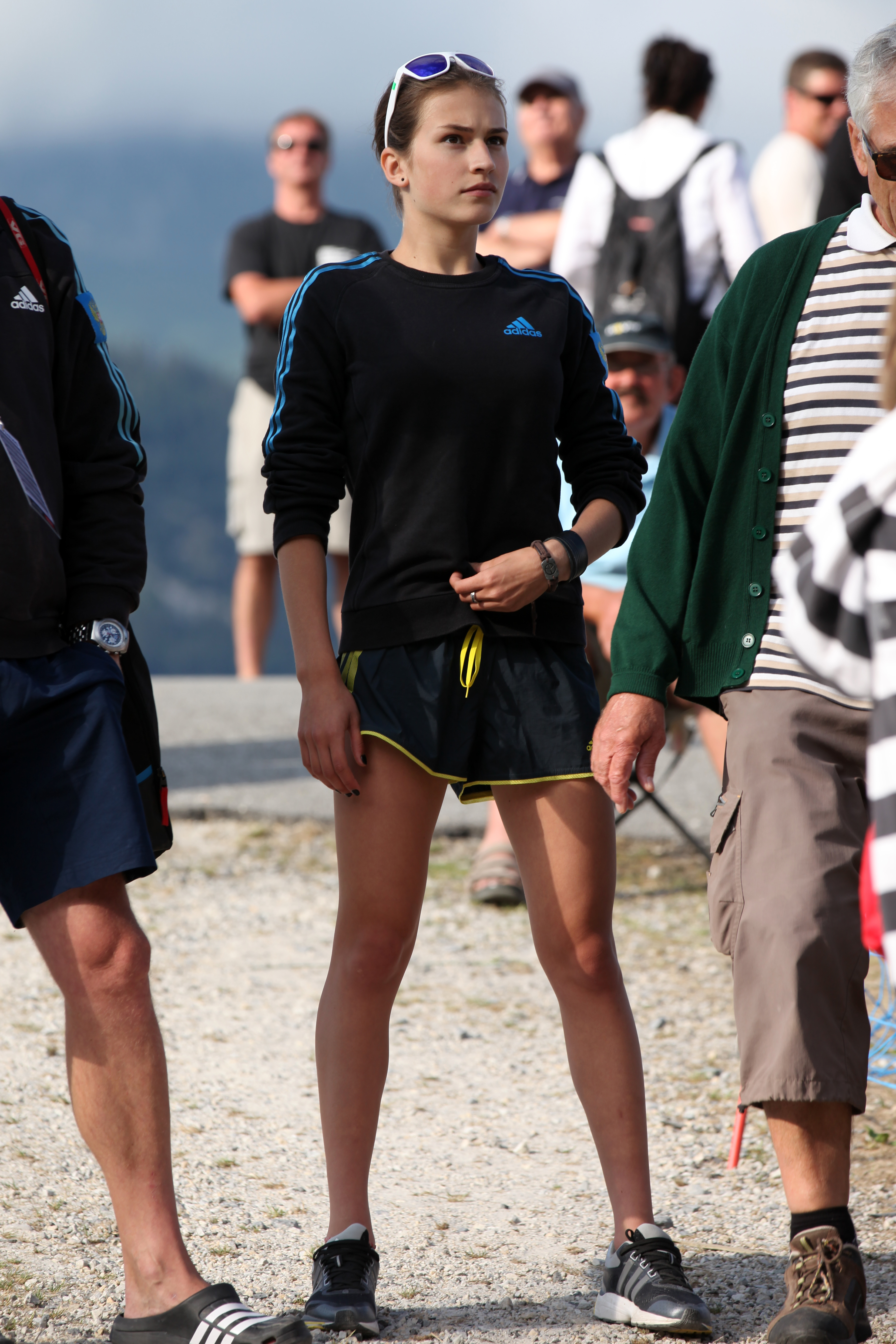 Daria Grushina (Дарья Грушина) at the Summer Grand Prix ski jumping event in Courchevel.